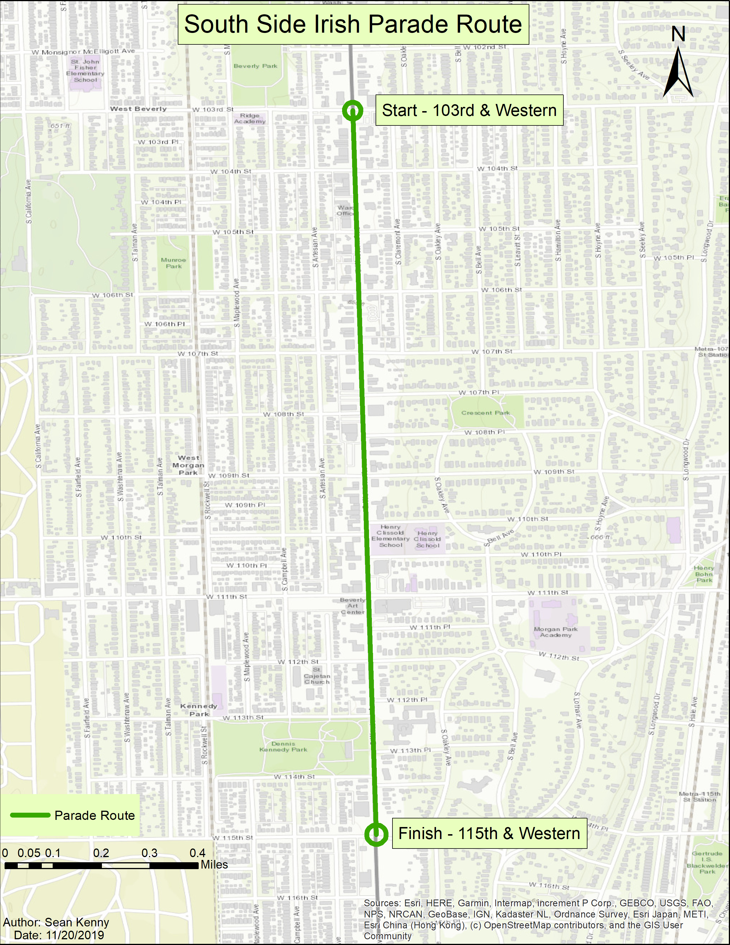 Basic cartography to provide visualization for the South Side Irish Parade in the Beverly-Morgan Park neighborhoods in the southern region of Chicago, Illinois. This event takes place around St. Patrick Day.